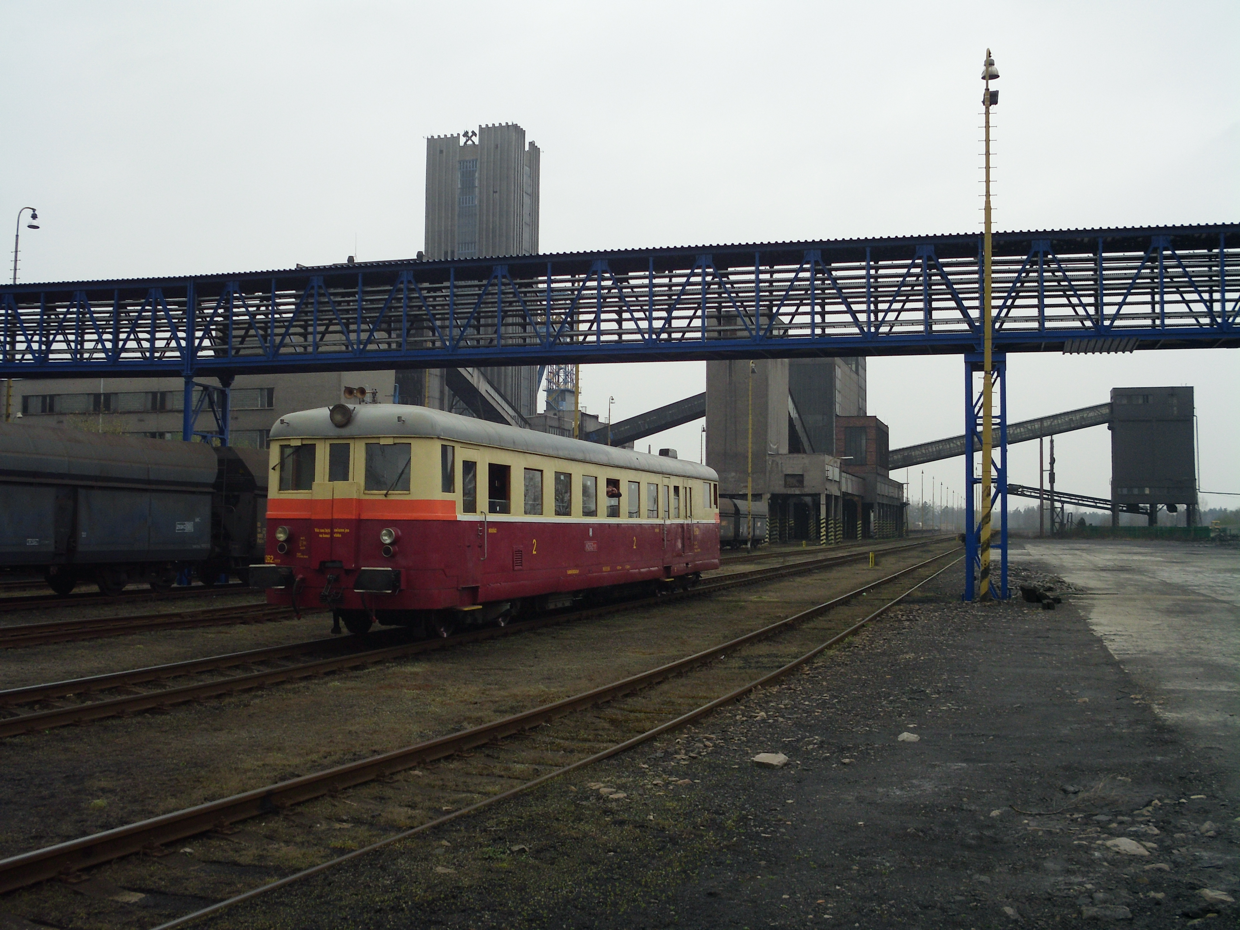 Diesel railcar M262.1117 of KŽC Doprava at a freight station outside Paskov Coal Mine, Staříč, Czech Republic. The branch line is operated by AWT.